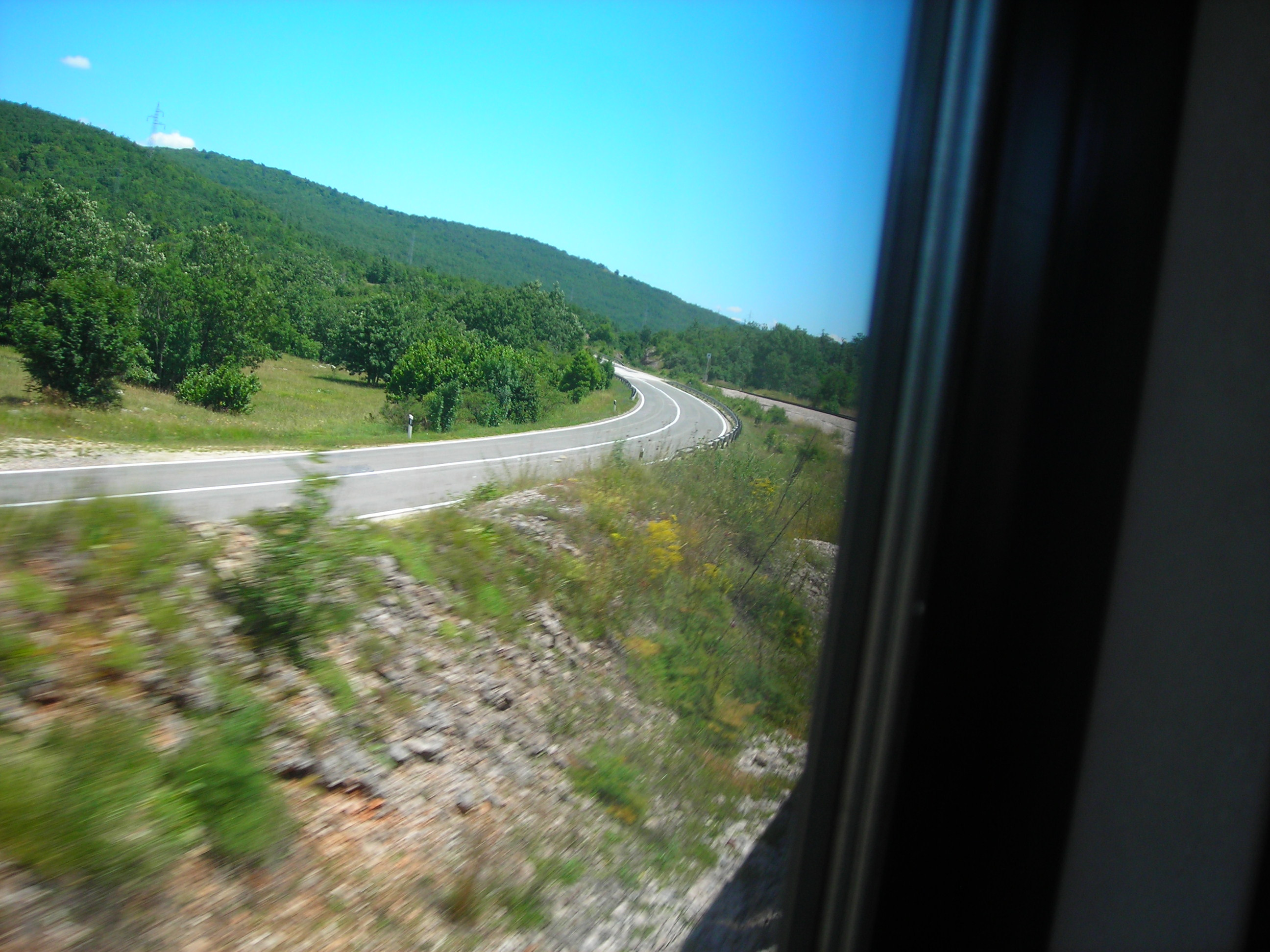 Road 1/E71 north of Knin, Croatia. Photo from the train Split-Zagreb.